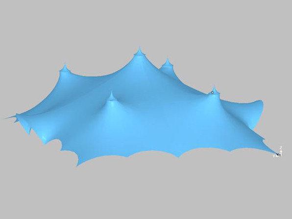 Dance